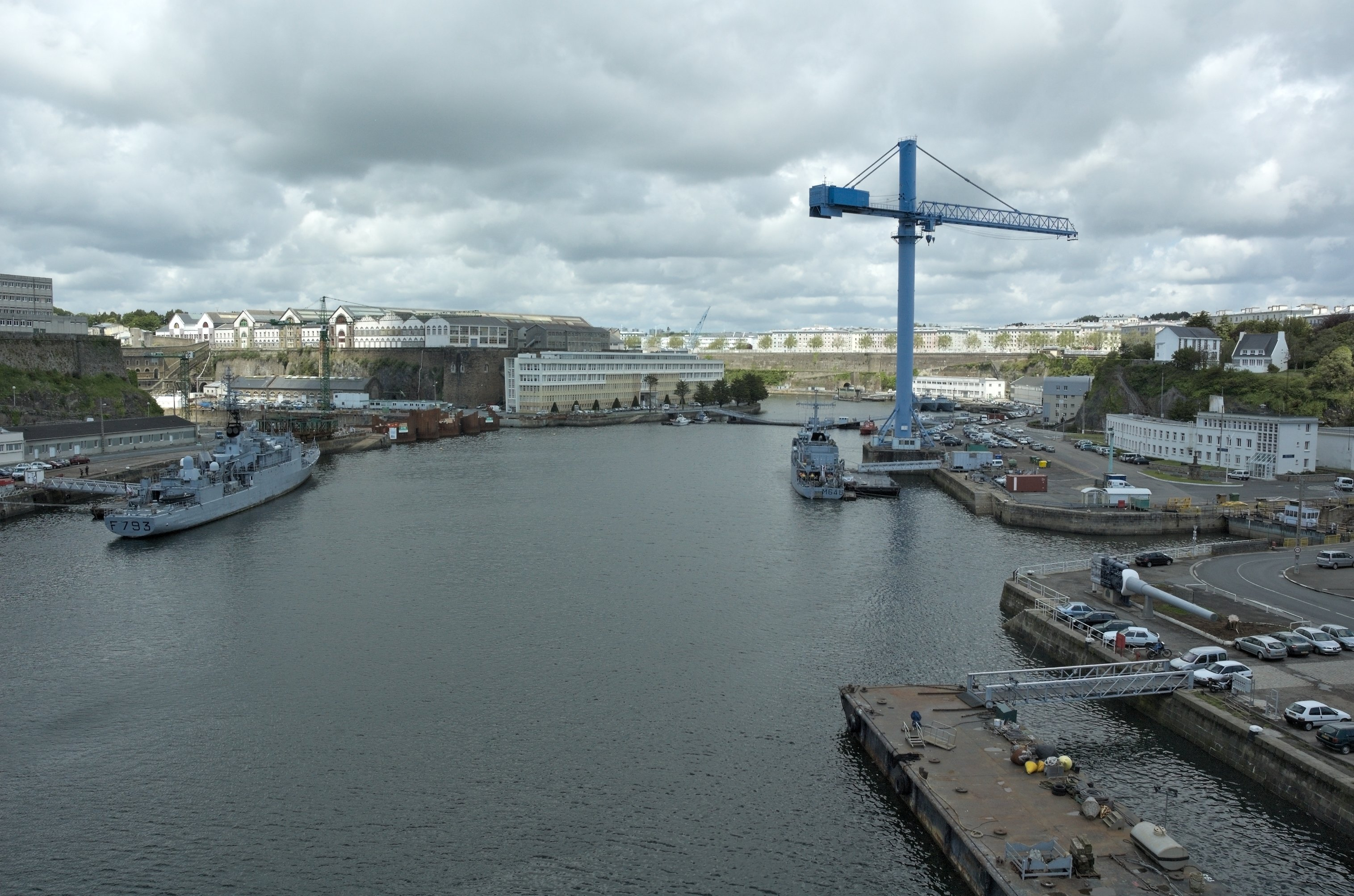 Penfeld river in Brest. On the left, the D'Estienne d'Orves class Aviso Commandant Blaison (F793). Moored at the bottom of the crane, the minesweeper Lyre (M648). On the right in the parking lot, one of the two remaining 380mm/45 Modèle 1935 guns of the battleship Richelieu